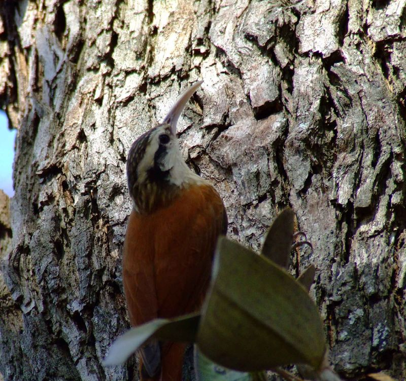 Narrow-billed Woodcreeper (Lepidocolaptes angustirostris).